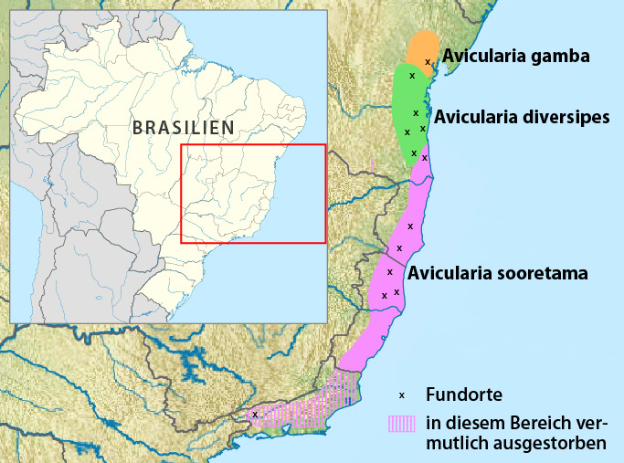 Distribution map of Ybyrapora diversipes, Ybyrapora gamba and Ybyrapora sooretama